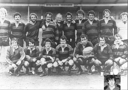 Aberavon Quins RFC